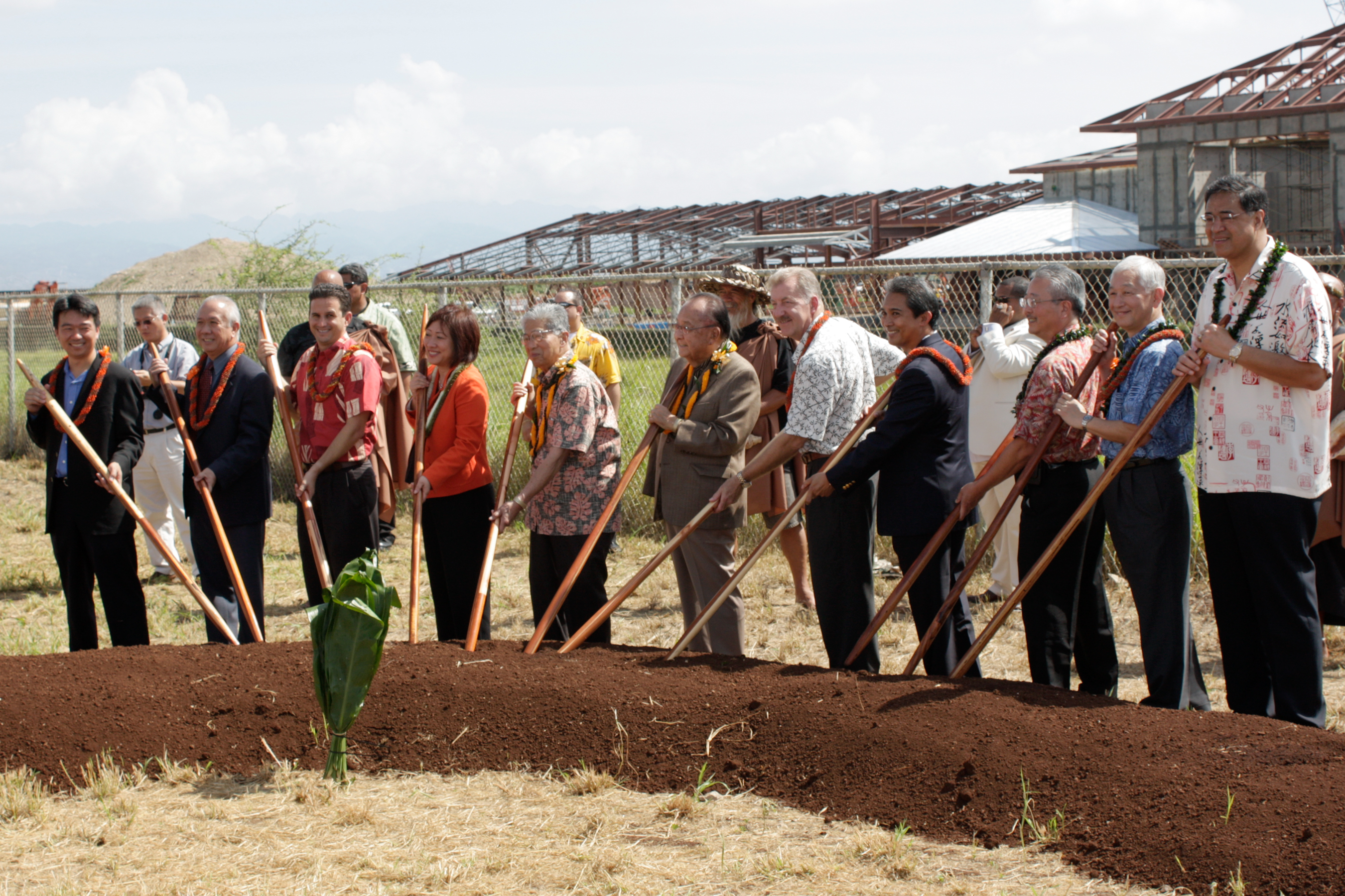 Government officials at the symbolic groundbreaking ceremony for the Honolulu High-Capacity Transit Corridor project. Pictured from left to right are Hawaii State Senator (4th district) and President Shan Tsutsui, Hawaii State House of Representatives member (20th district) and Speaker Calvin Say, Hawaii Lieutenant Governor Brian Schatz, U.S. Congressmember (Hawaii 1st district) Colleen Hanabusa, U.S. Senator Daniel Akaka, U.S. Senator and President pro tempore Daniel Inouye, Honolulu Mayor Peter Carlisle, Honolulu City Councilmember (district 9) and Chairman Nestor Garcia, City and County of Honolulu Department of Transportation Services Director Wayne Yoshioka, City and County of Honolulu Department of Transportation Services Rapid Transit Division Chief Toru Hamayasu, and former Honolulu Mayor Mufi Hannemann.